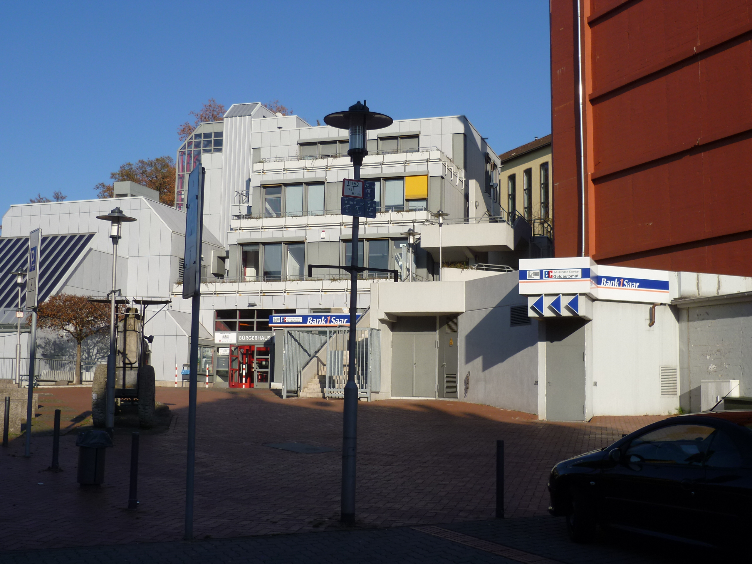 Bürgerhaus in Burbach